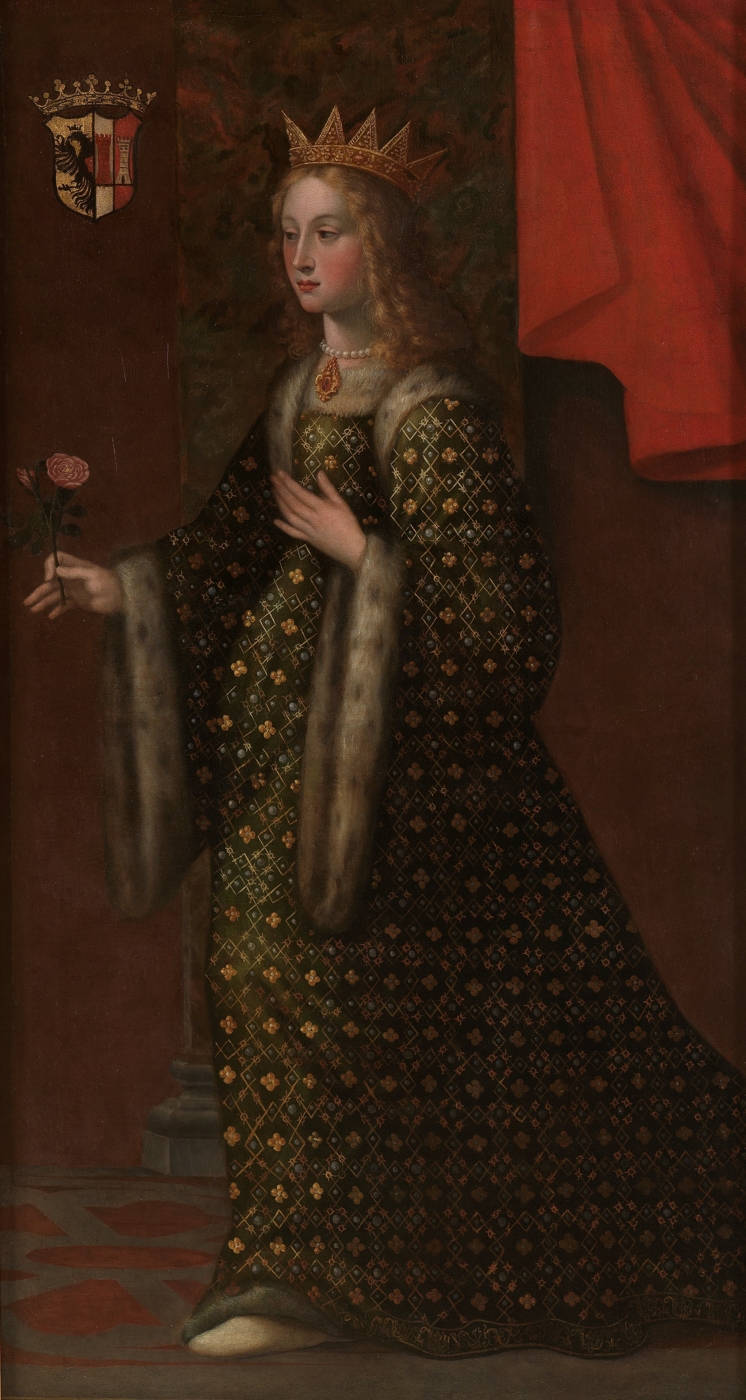 portrait of Adelaide of Susa, Oddone's wife